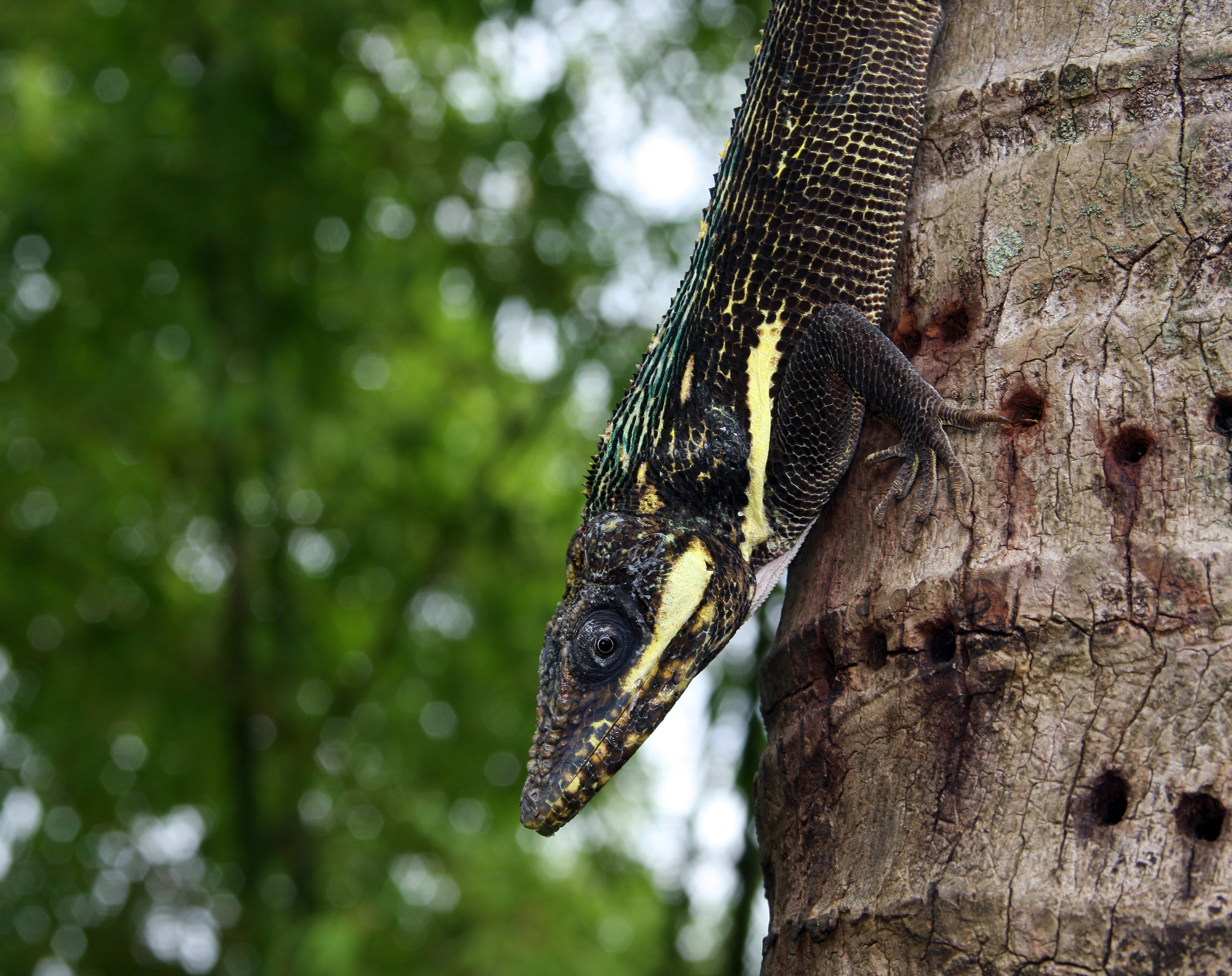 Anolis equestris showing dark colors after having lost a territorial dispute.